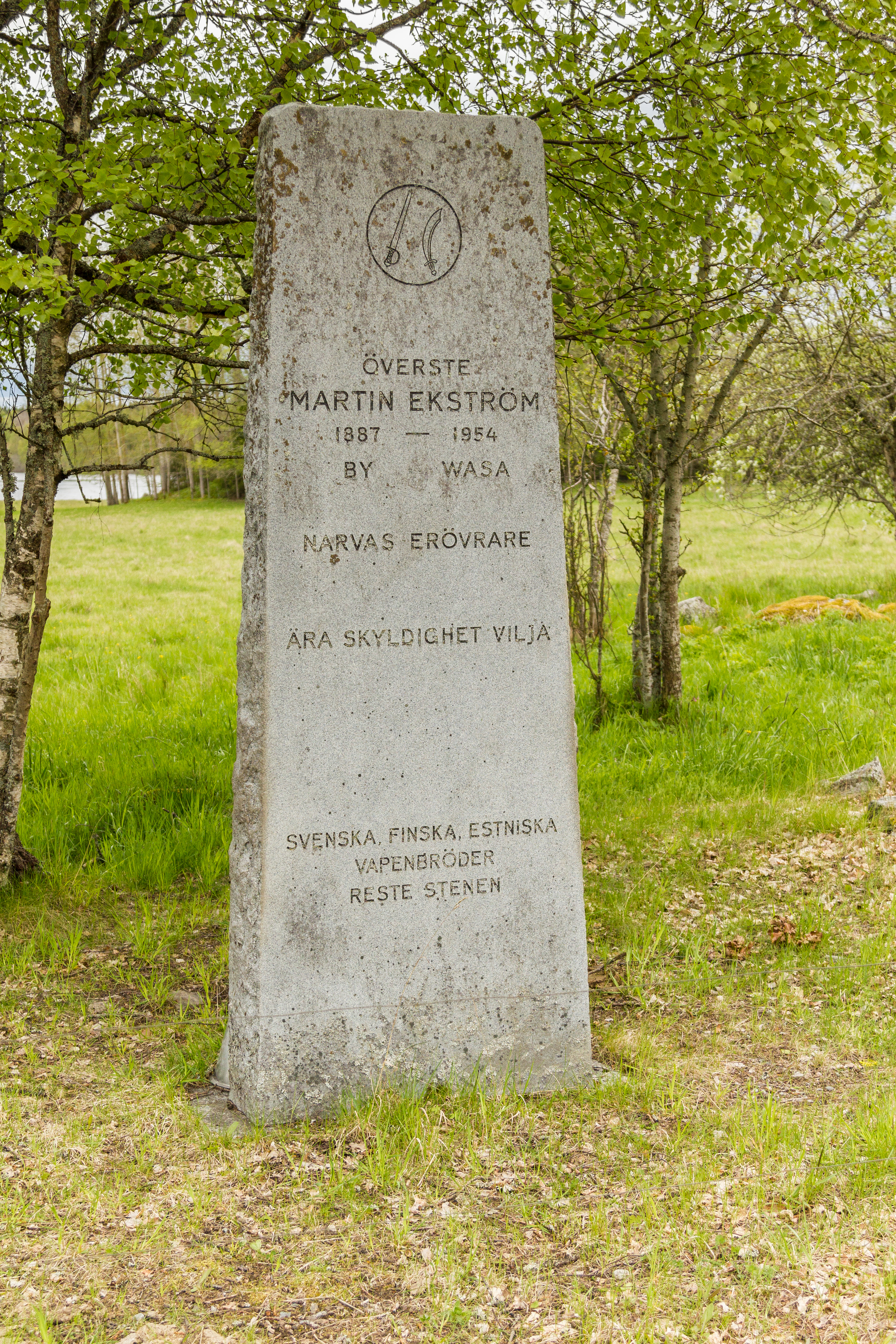 Memorial over colonel Martin Ekström (1887–1954) in Gålsbo, By parish, Dalarna County, Sweden.